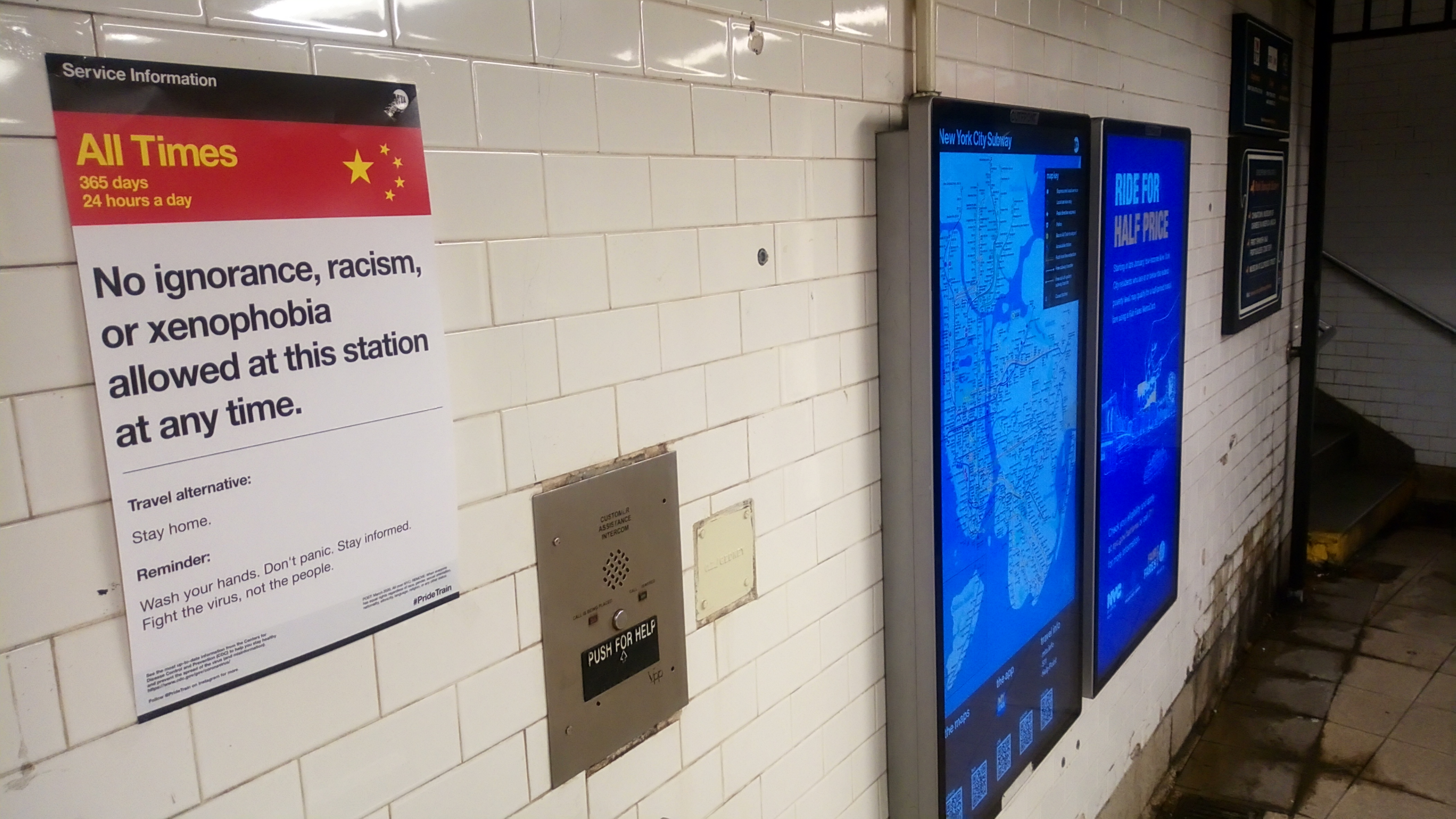 An unofficial poster designed to look like a New York City subway poster